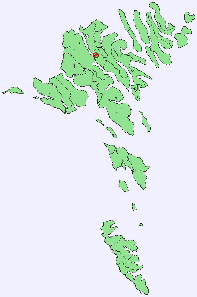 Position of Norðskáli in the Faroe Islands Graphics: Arne List